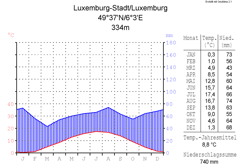 climate chart in the format by Walter and Lieth, metric, °Celsisus and millimeters, made with Geoklima 2.1